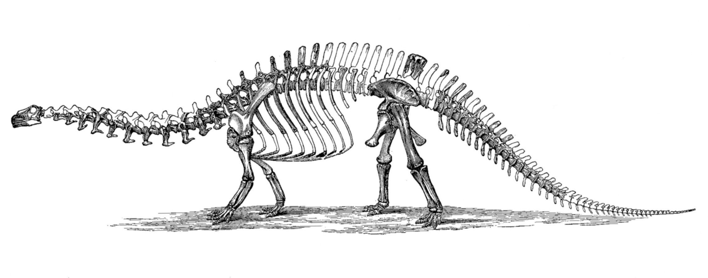 Illustration of a Brontosaurus skeleton by Othniel Charles Marsh (d. 1899). Head is based on material now assigned to Brachiosaurus sp.[2], the body is Apatosaurus excelsus. Marsh, O.C. (1896). "The dinosaurs of North America." Sixteenth Annual Report of the United States Geological Survey, pp. 133-244. Washington: Government Printing Office, 1896.